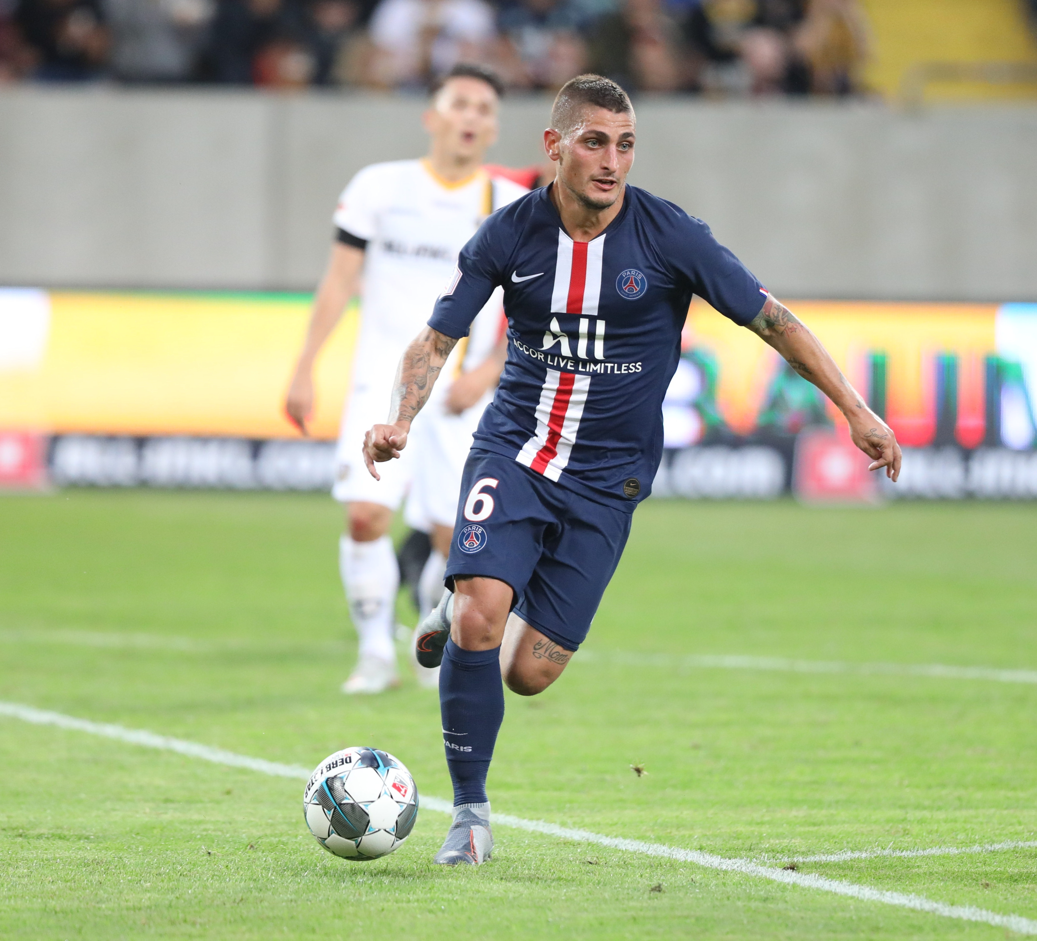 Test game, 17th July 2019: SG Dynamo Dresden vs. Paris Saint-Germain 1:6 (0:3)